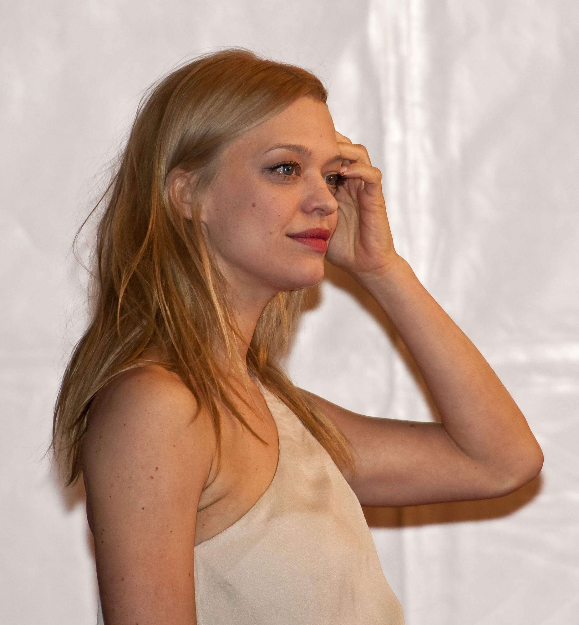 German actress Heike Makatsch arriving at the Cinema For Peace gala 2010